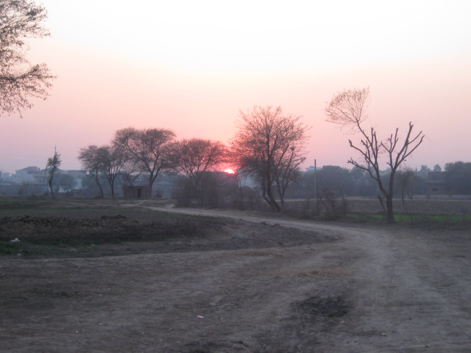 Sun setting on Amra Kalan village